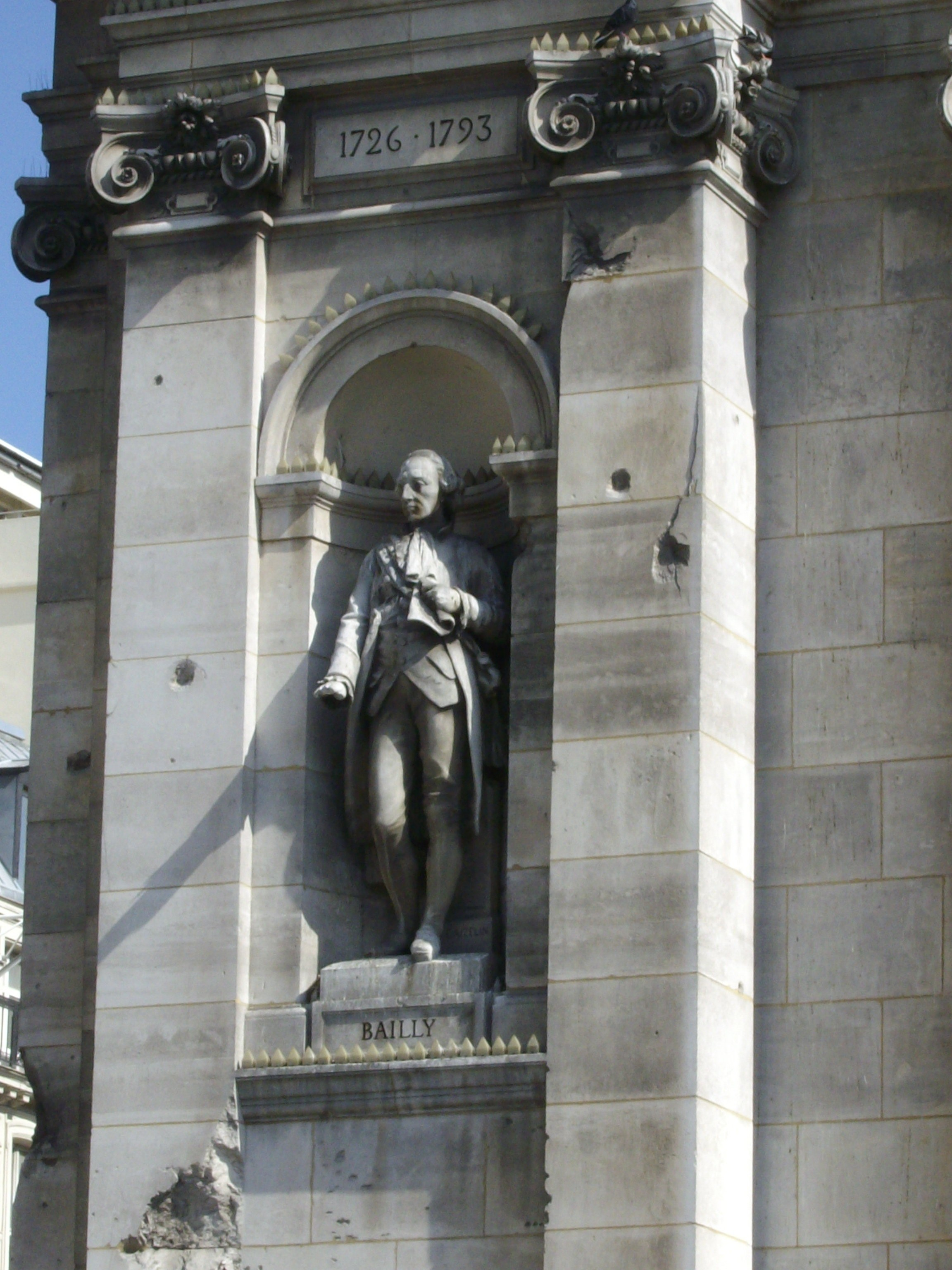 Statues of the City Hall in Paris, France